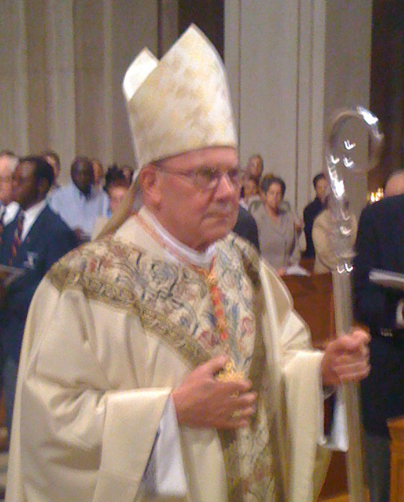 Cardinal William Levada